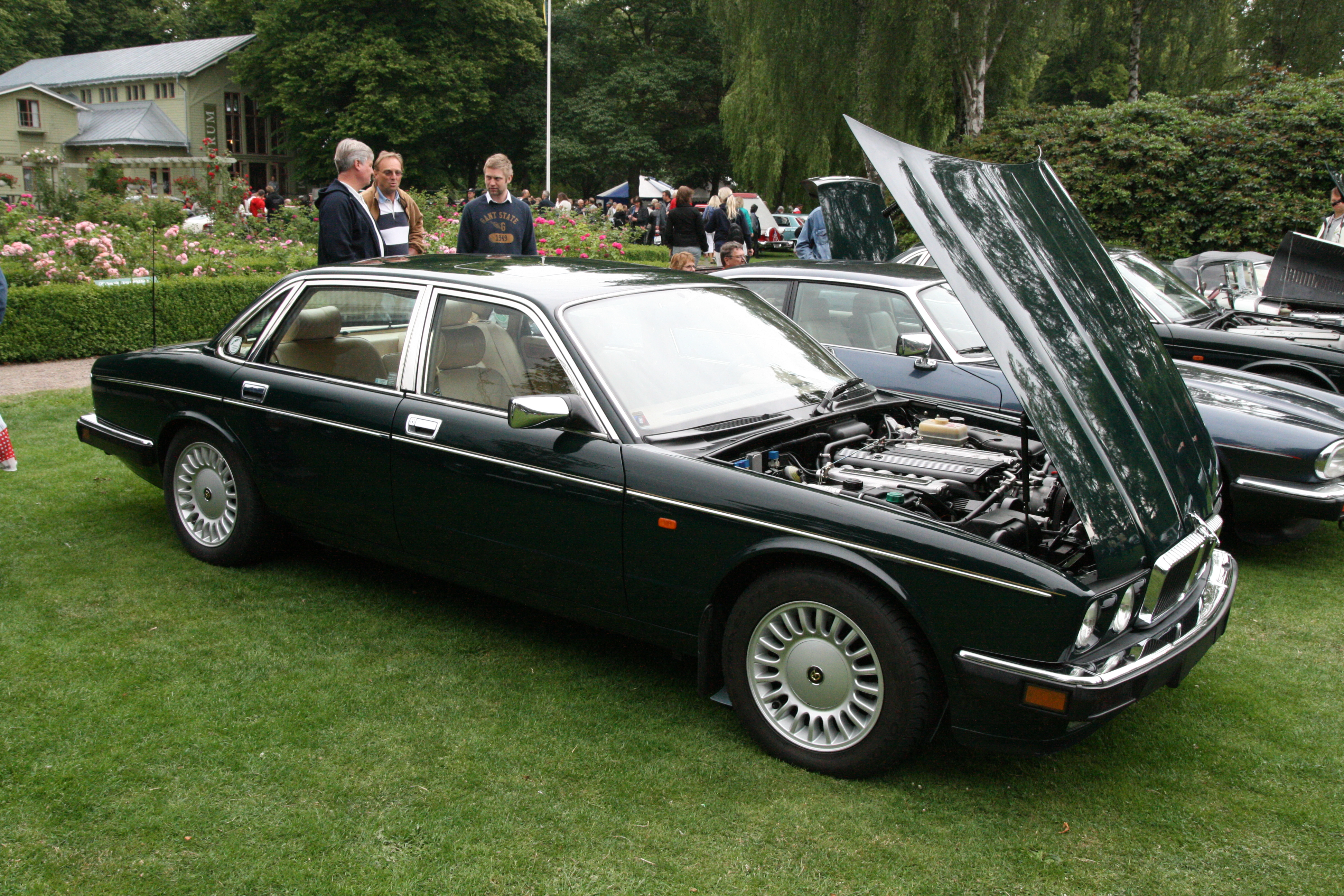 Front right view of a 1994 Daimler Double Six in British racing green paint parked at the 2008 Nostalgia Festival auto show in Ronneby, Sweden.